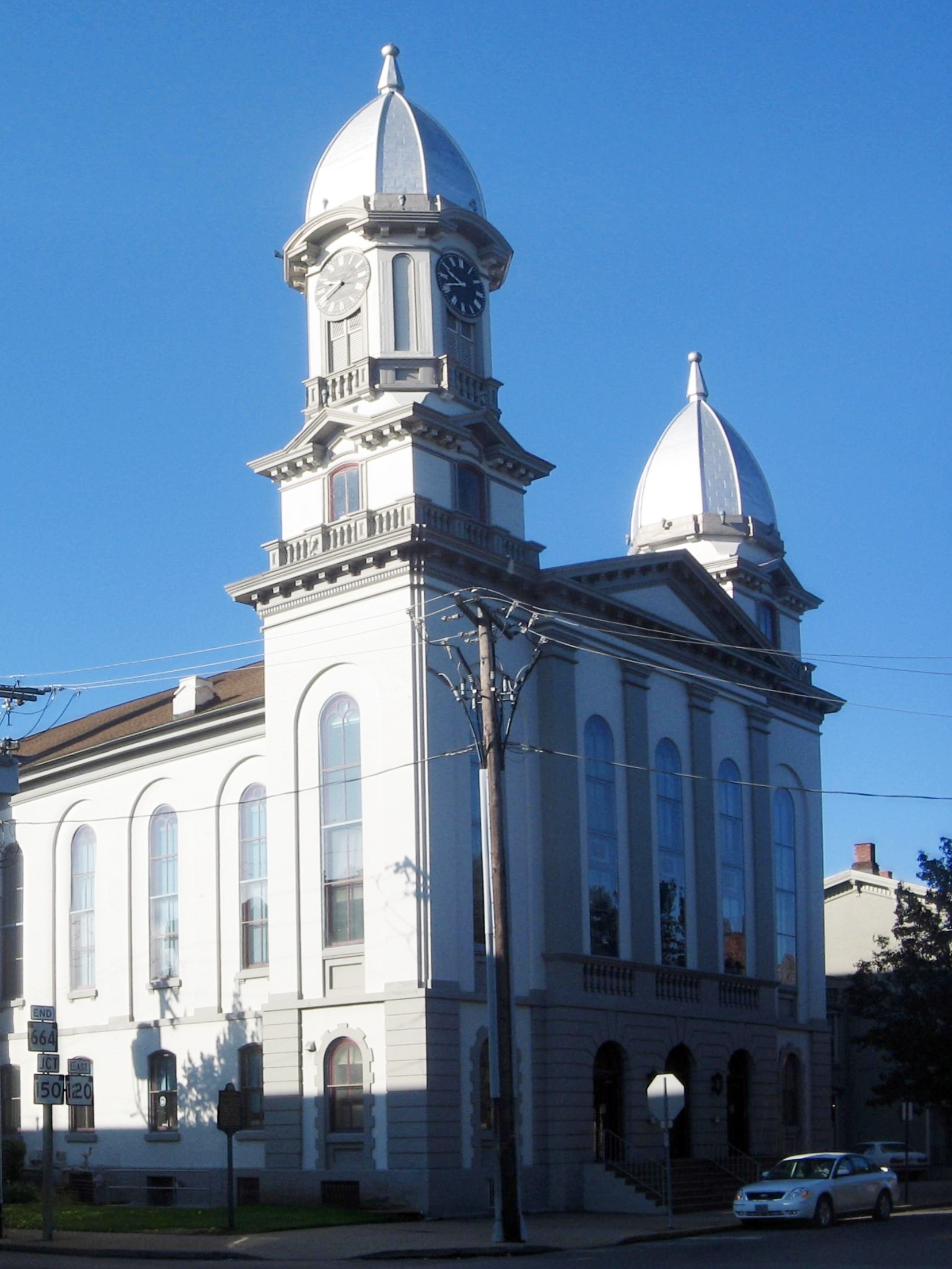 Courthouse, downtown Lock Haven, Clinton County, Pennsylvania, USA